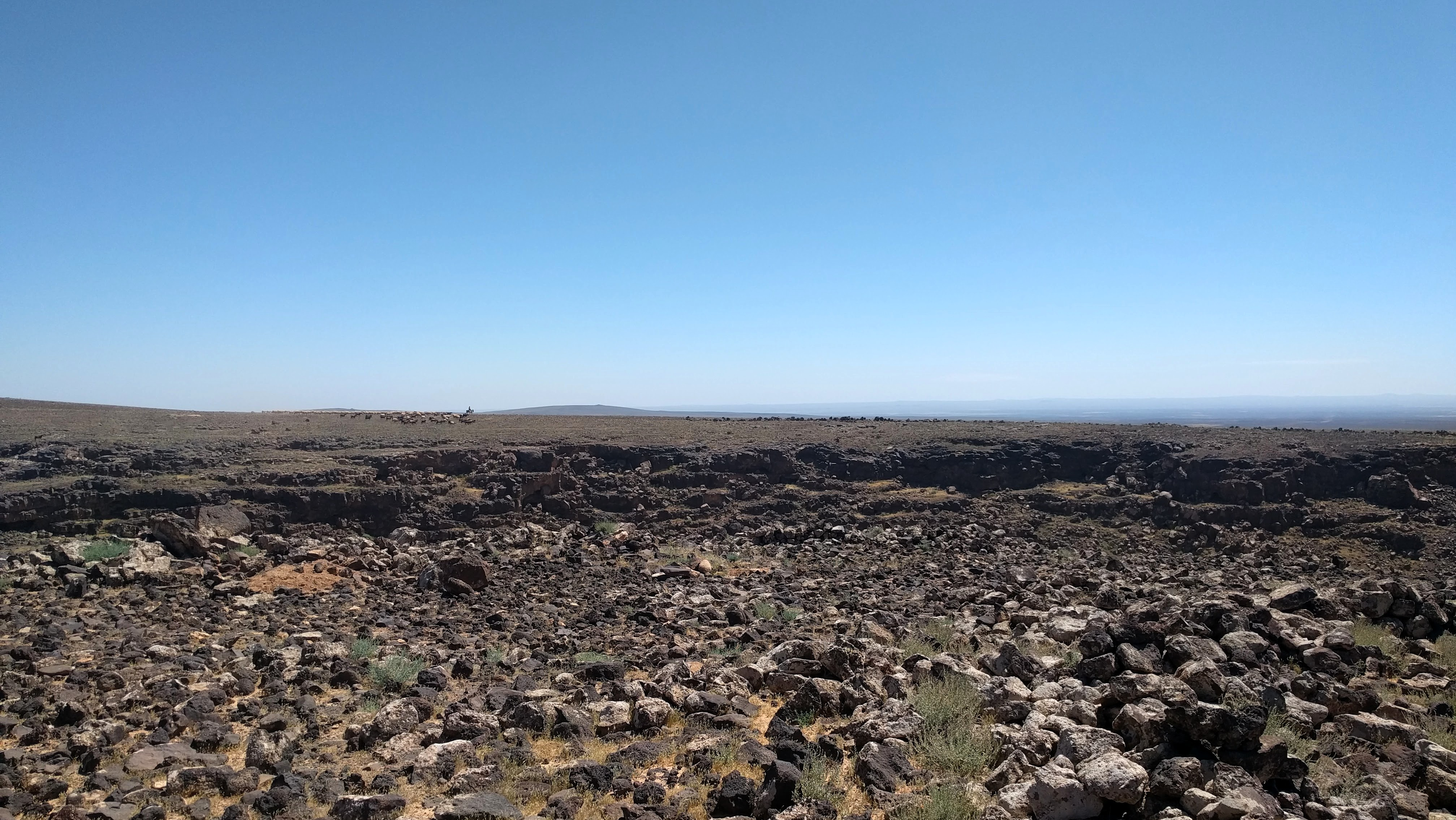 Photograph of a deeply-incised section of the Wadi Rajil near Jawa, in the Black Desert, eastern Jordan. A Bedouin shepherd and his flock can be seen on the opposite bank.